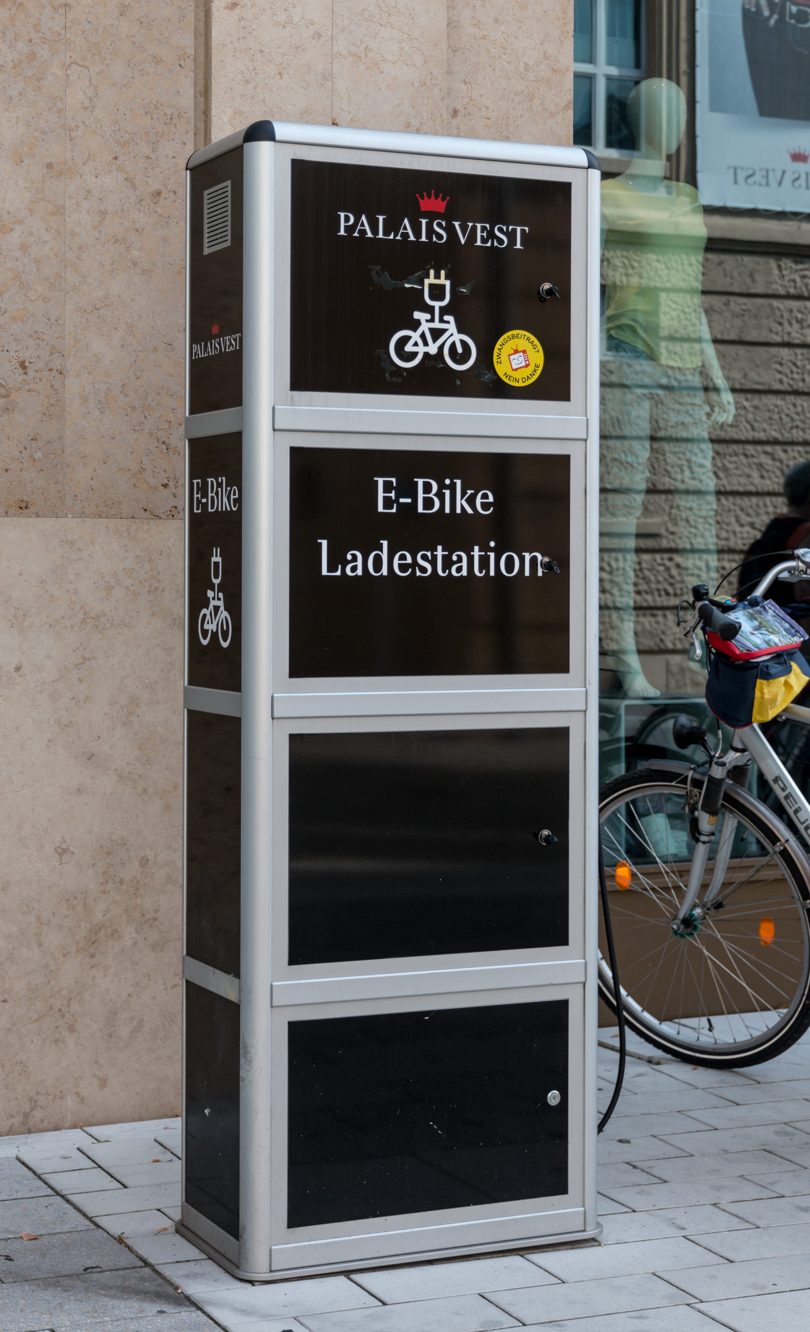 Electric bike charging station in Recklinghausen, North Rhine-Westphalia, Germany